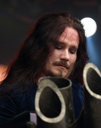 Tuomas Holopainen with Nightwish at Tuska Open Air 2013.